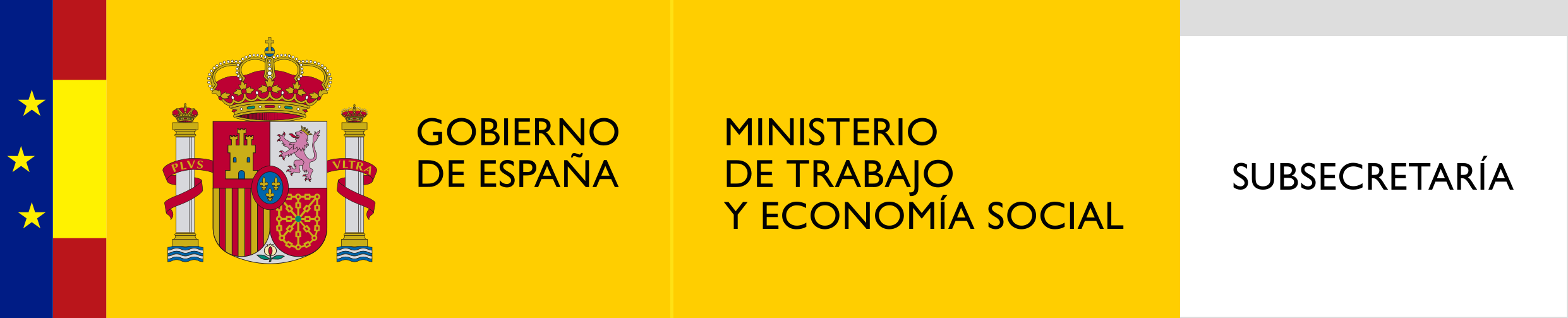 Logo of the Undersecretariat of Labour, Migration and Social Security of Spain